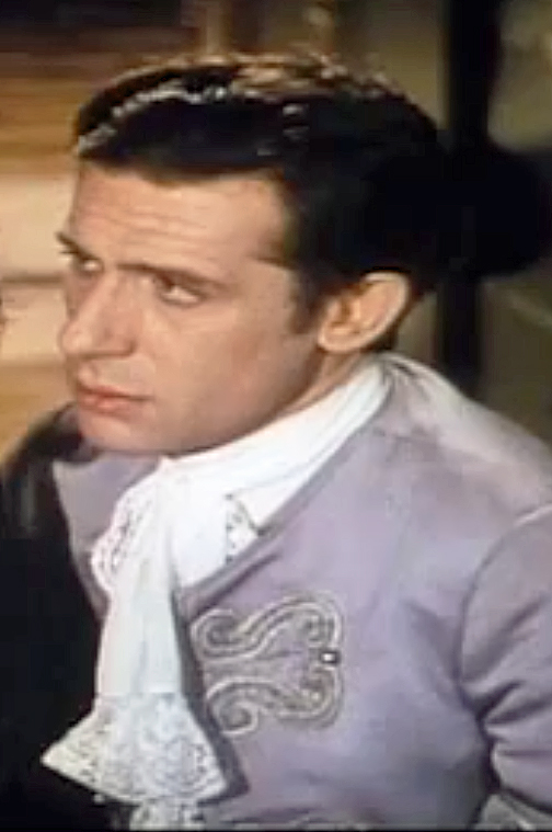 Duncan Lamont in trailer for "The Golden Coach" (1954)